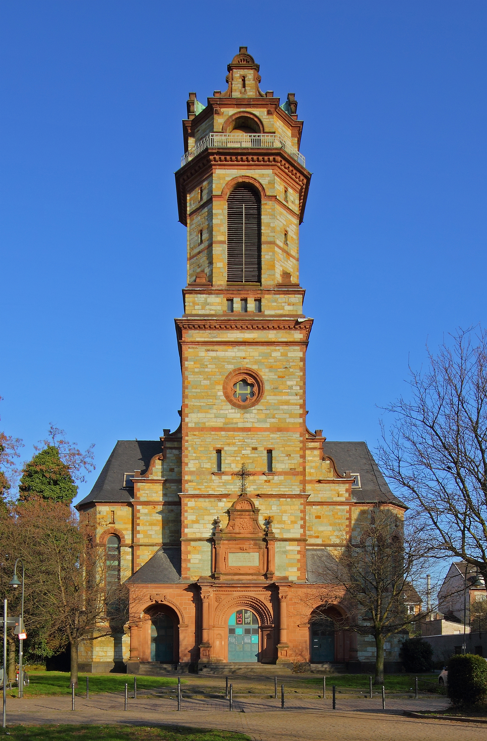 Cologne-Mülheim, tower of the former Luther church